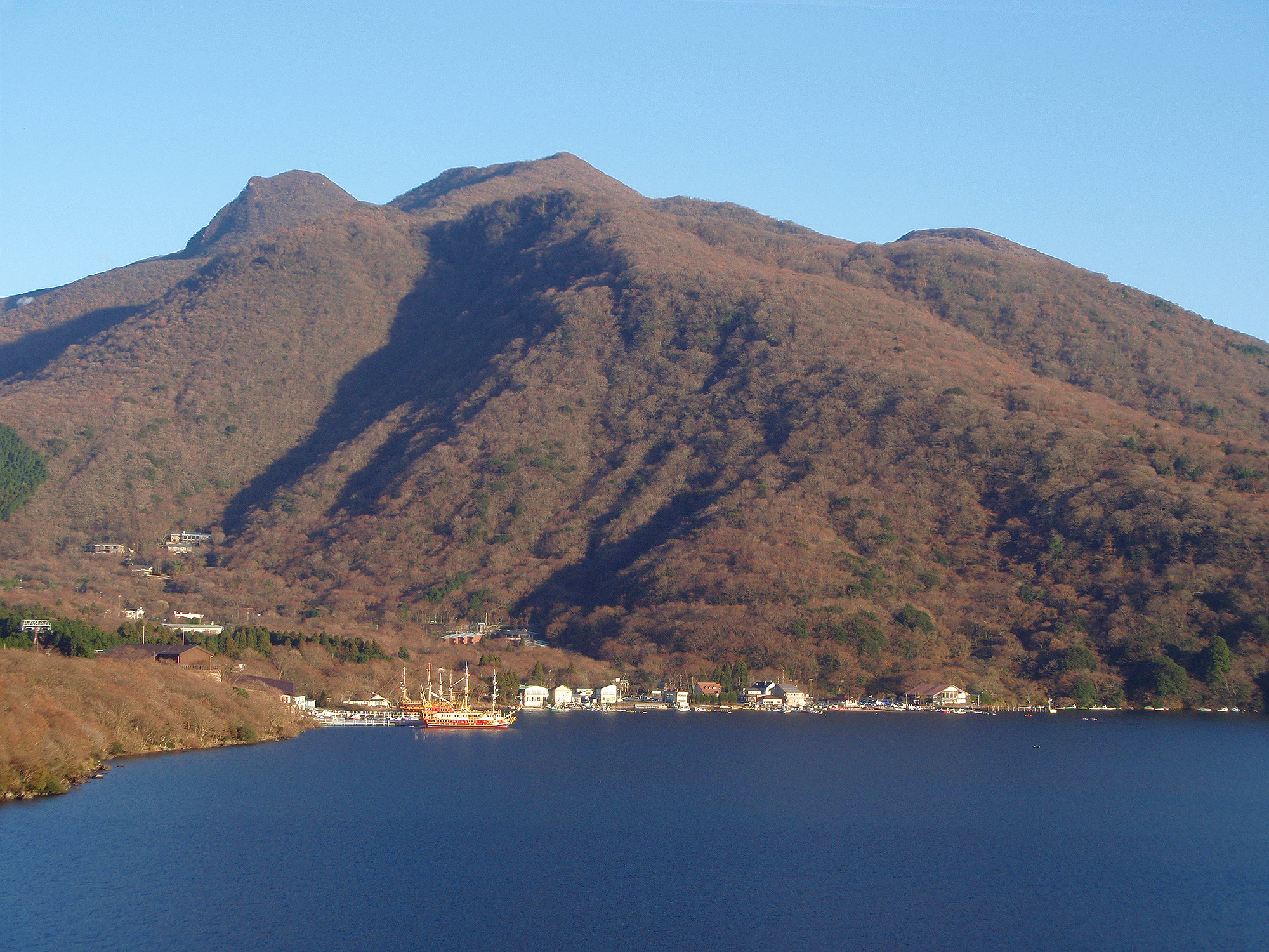 Kamiyama stratovolcano as seen from west in Hakone volcano, Honshu, Japan.